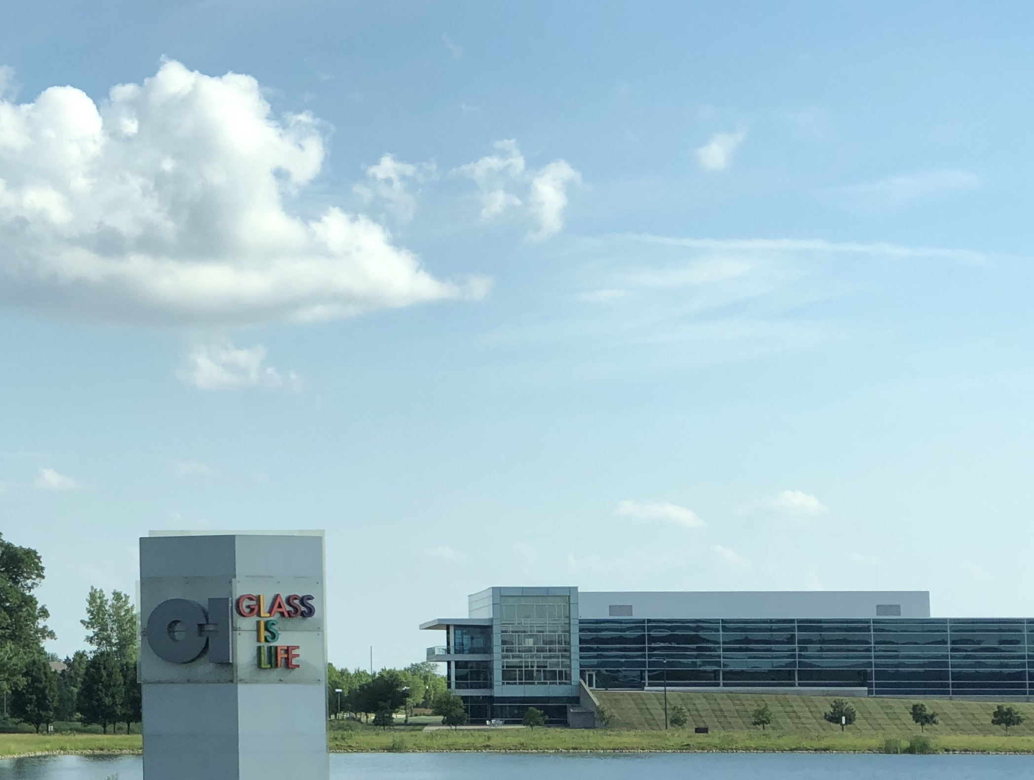 Owens-Illinois building in Perrysburg, Ohio